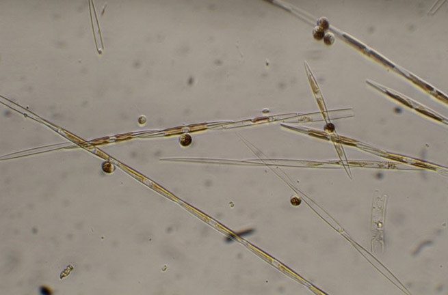 This is an image of the diatom Pseudo-nitzschia, which can produce the toxin domoic acid. (Image courtesy of Oregon State University)